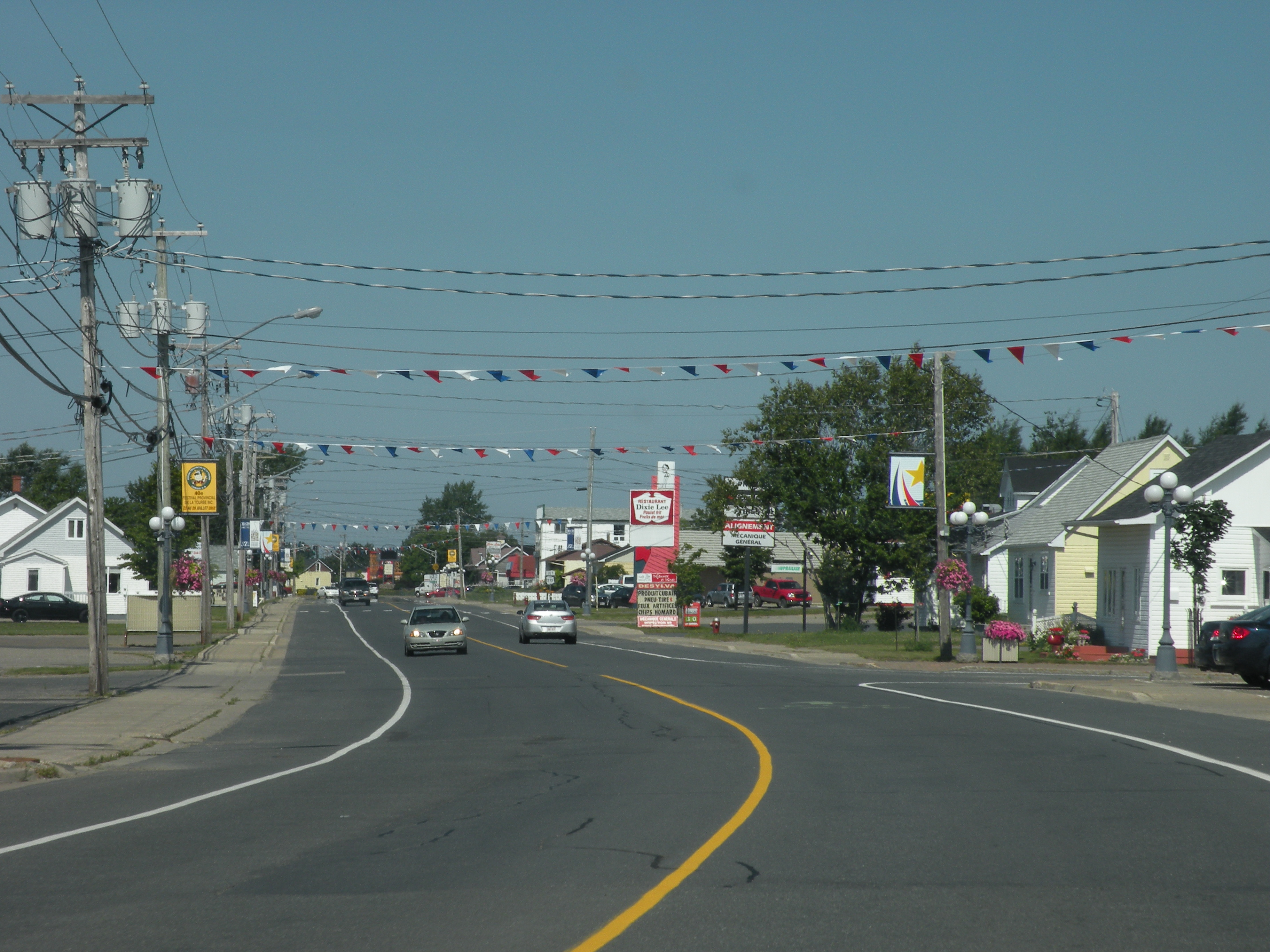 Main Street in Lamèque, New Brunswick, Canada. It's also road 113.